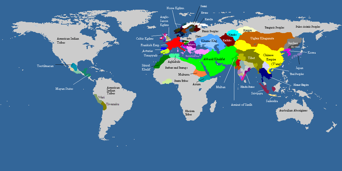 Map of the world, c. AD 820. Colored areas show the extent of influence for the major empires of the period; control over some areas may have been purely nominal. Gray areas showed areas that are mainly inhabited by Indigineous populations, or completely uninhabited.